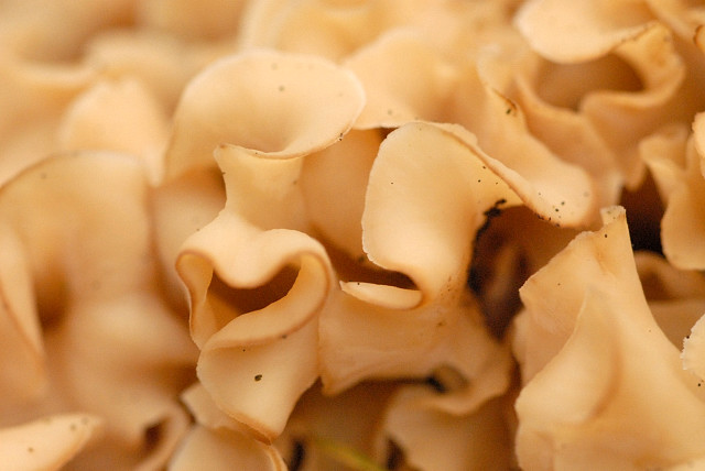 Sparassis crispa from Commanster, Belgium. The determination of the species shown in this picture has been verified.